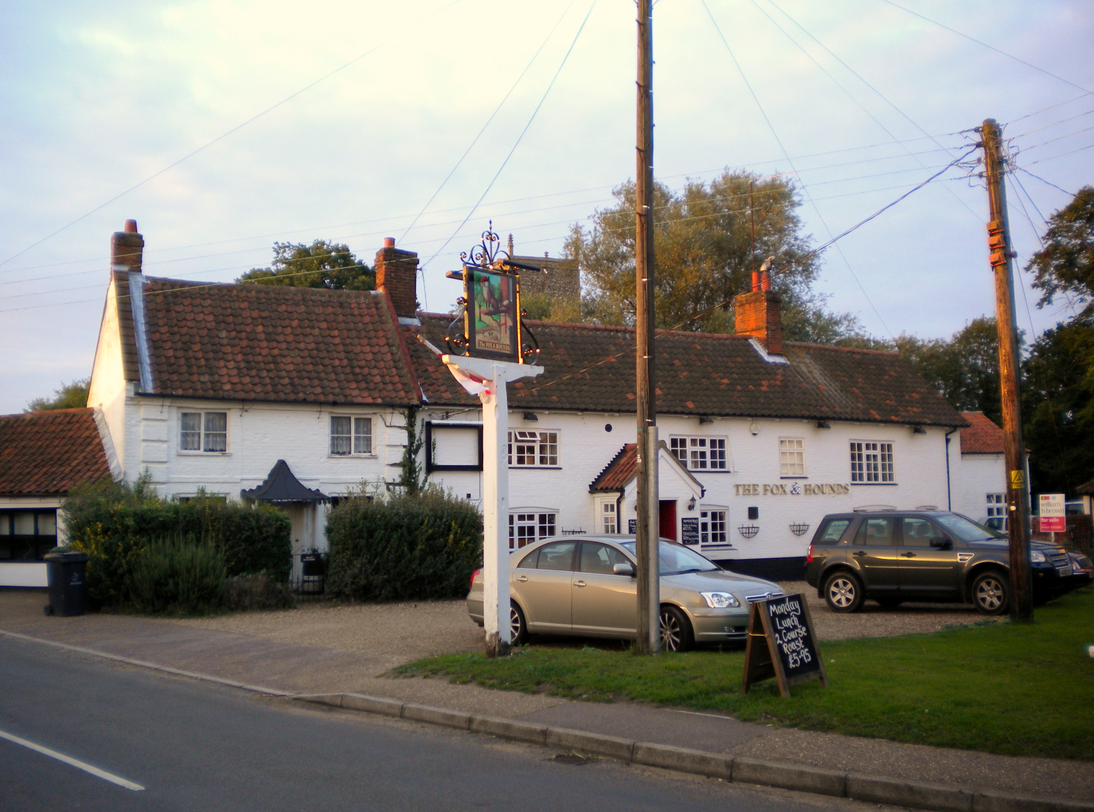 The Fox and Hounds public house at Lyng, Norfolk, England.